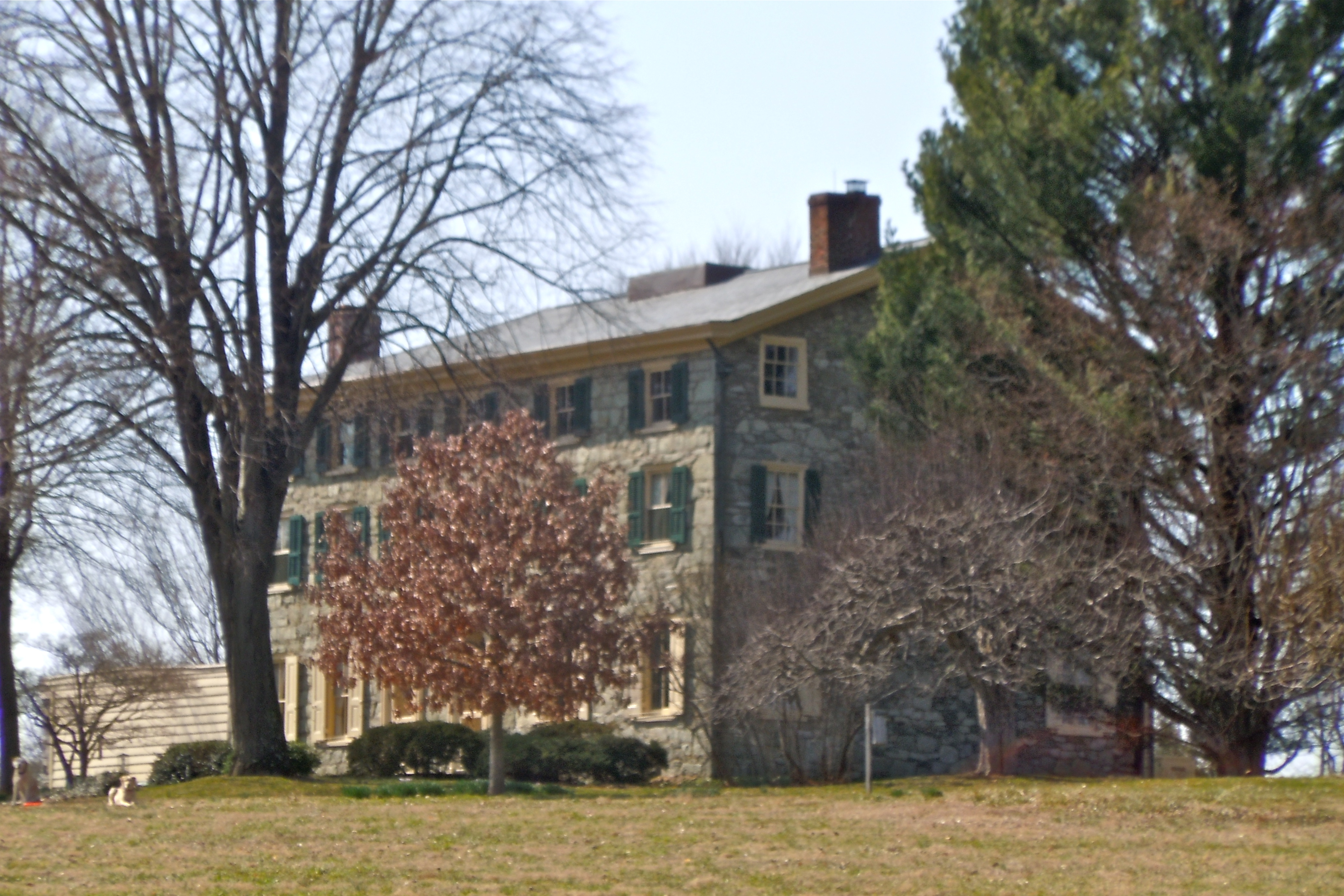 Carter-Worth House and Farm on the NRHP since September 15, 1977, at 450 Lucky Hill Road near Marshallton, in East Bradford Township, Chester County, Pennsylvania. Also near, or part of, Worth-Jefferis Rural Historic District on the NRHP since 1995.